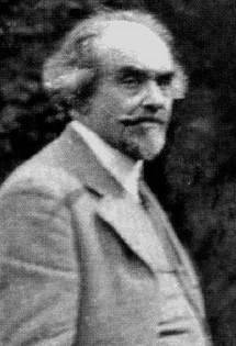 Another version of the photo